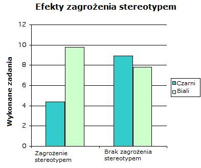 Translation